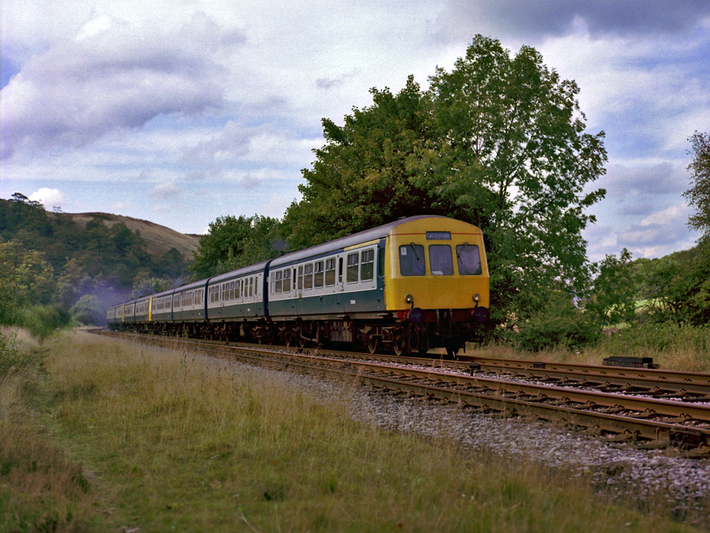 British Railways Metropolitan-Cammell RC&WCo Limited class 101 4-car diesel-mechanical multiple unit E50140, E59094, E59087 and E51514, class 101 2-car diesel-mechanical multiple unit E51499 and E51431, and British Railways Birmingham RC&WCo Limited class 110 3-car diesel-mechanical multiple unit E51816, E59813 and E51843 approaches Copy Pit on the Down Main line forming a Blackpool North to Castleford/Leeds Saturday only summer service. Saturday 25th September 1982